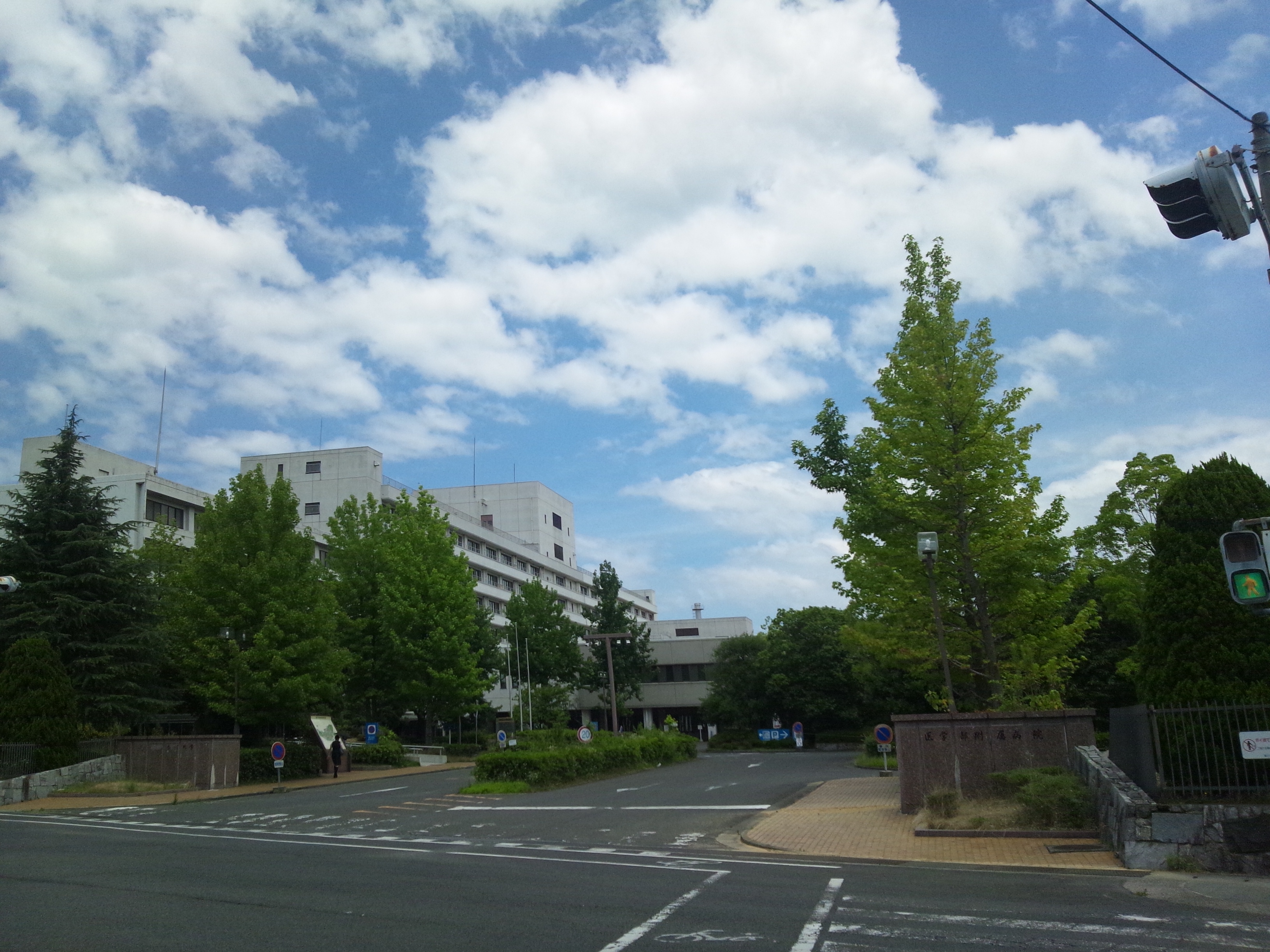 Kagawa University Hospital